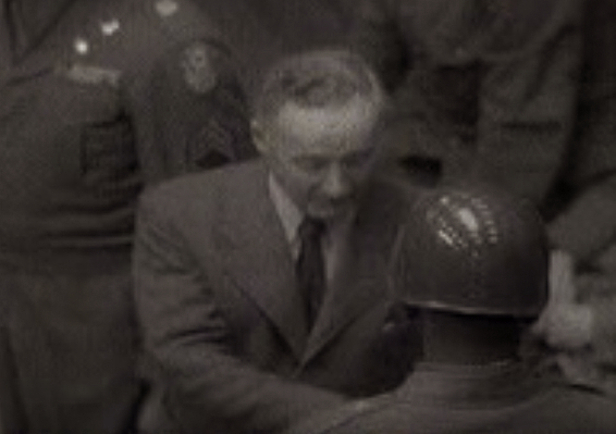 Ernst Dehner (1889–1970), War Crimes Trials - Subsequent Trial Proceedings - Hostages Trial #7, Nuremberg, Germany. Sentencing Southeast Generals.